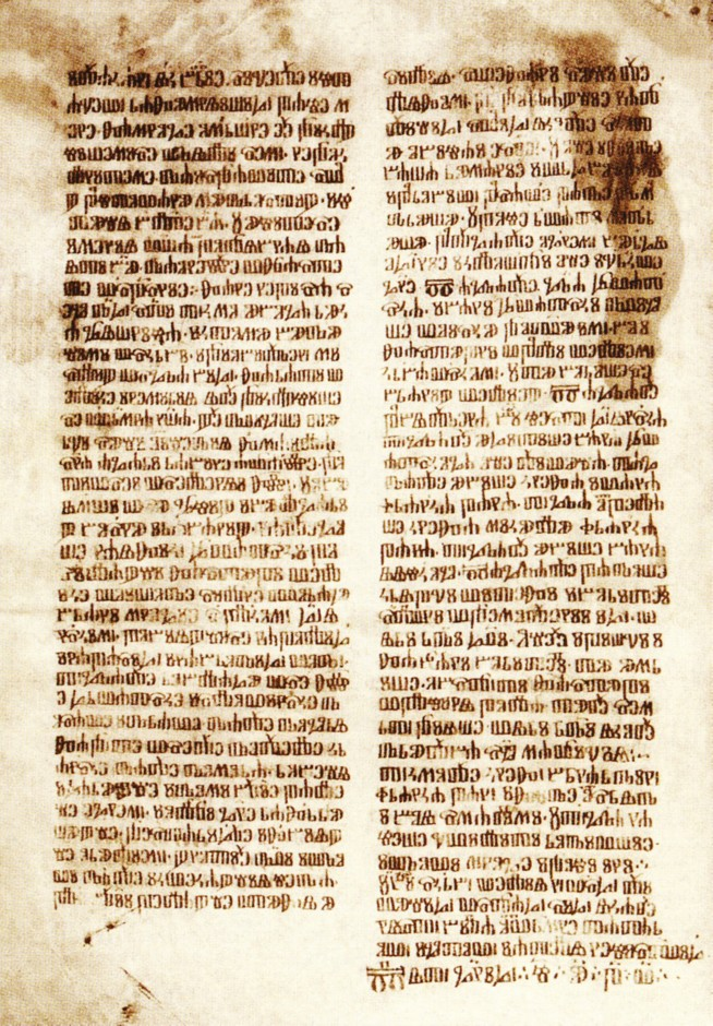 A page from the "Second Novi Vinodolski Breviary" written by priest Martinac in the 15th century, dealing with the battle of Krbava field (1493)